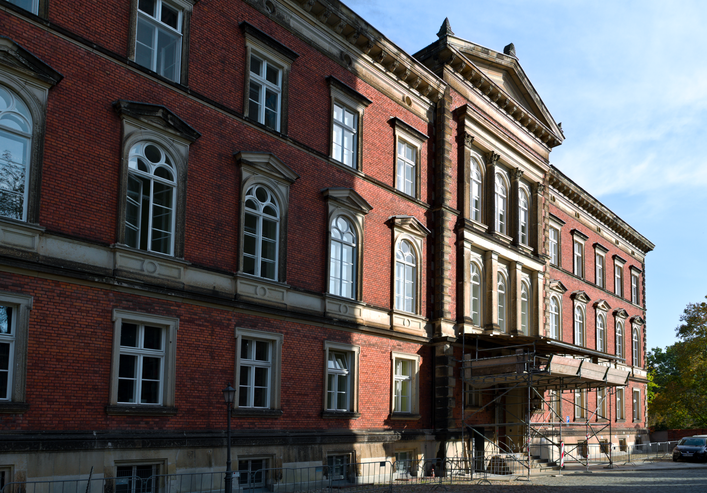 District court Landgericht Cottbus, Gerichtsstraße 3/4 in Cottbus-Mitte.